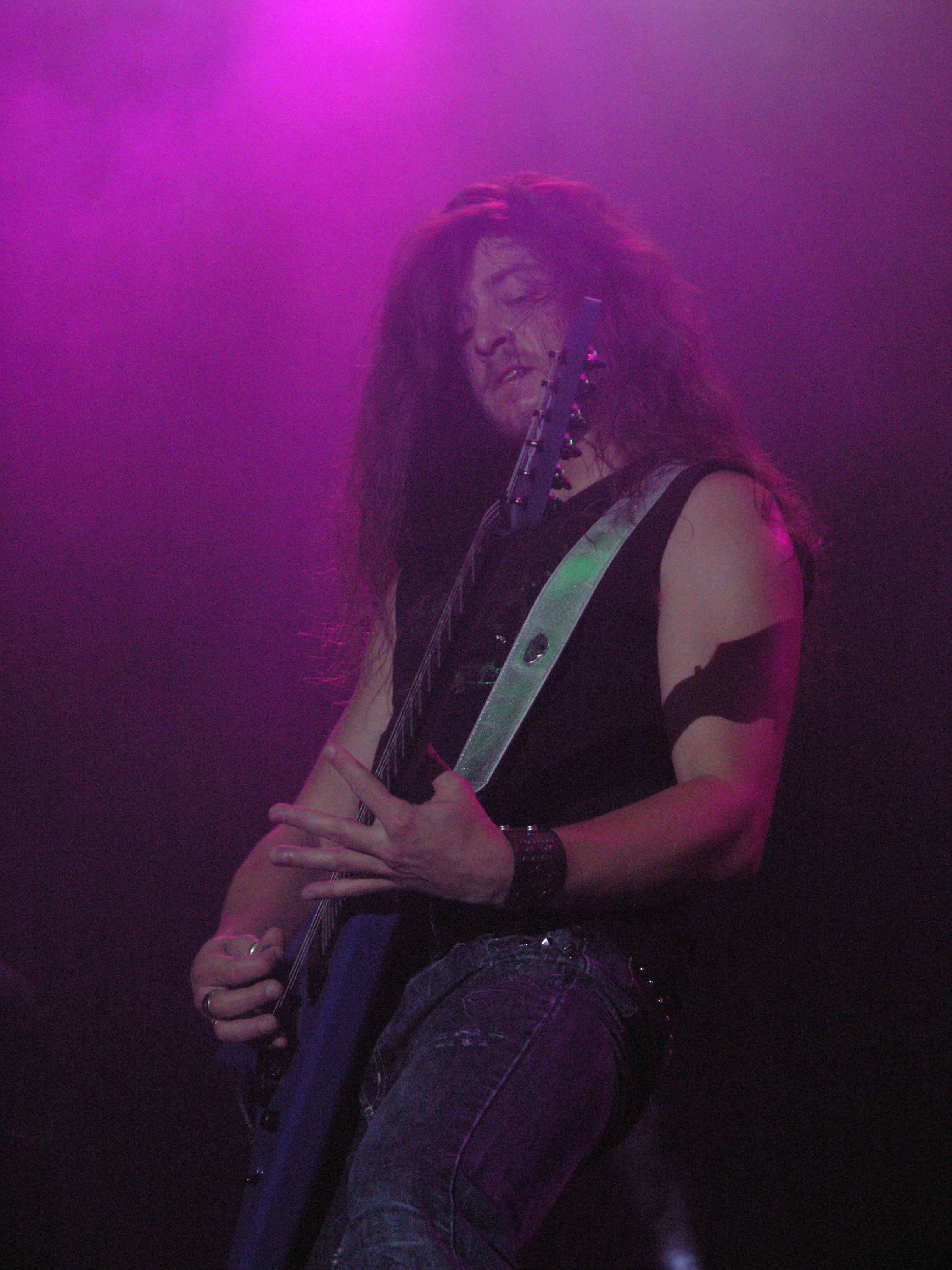 Bas Maas from After Forever during Masters of Rock 2007 festival